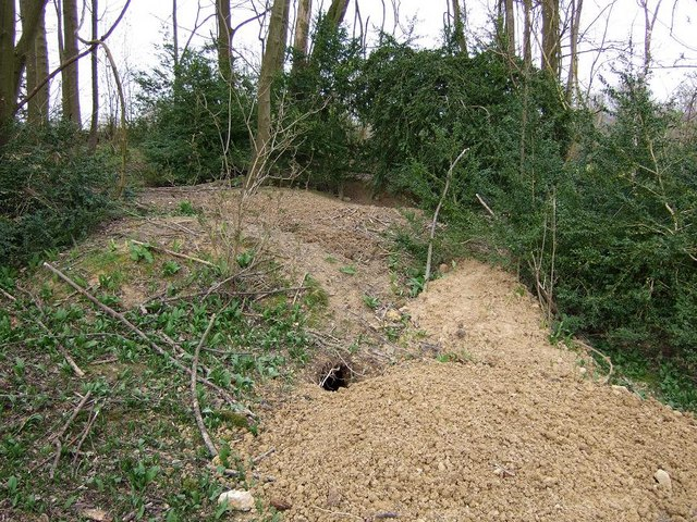 Freshly dug badger sett beneath box trees